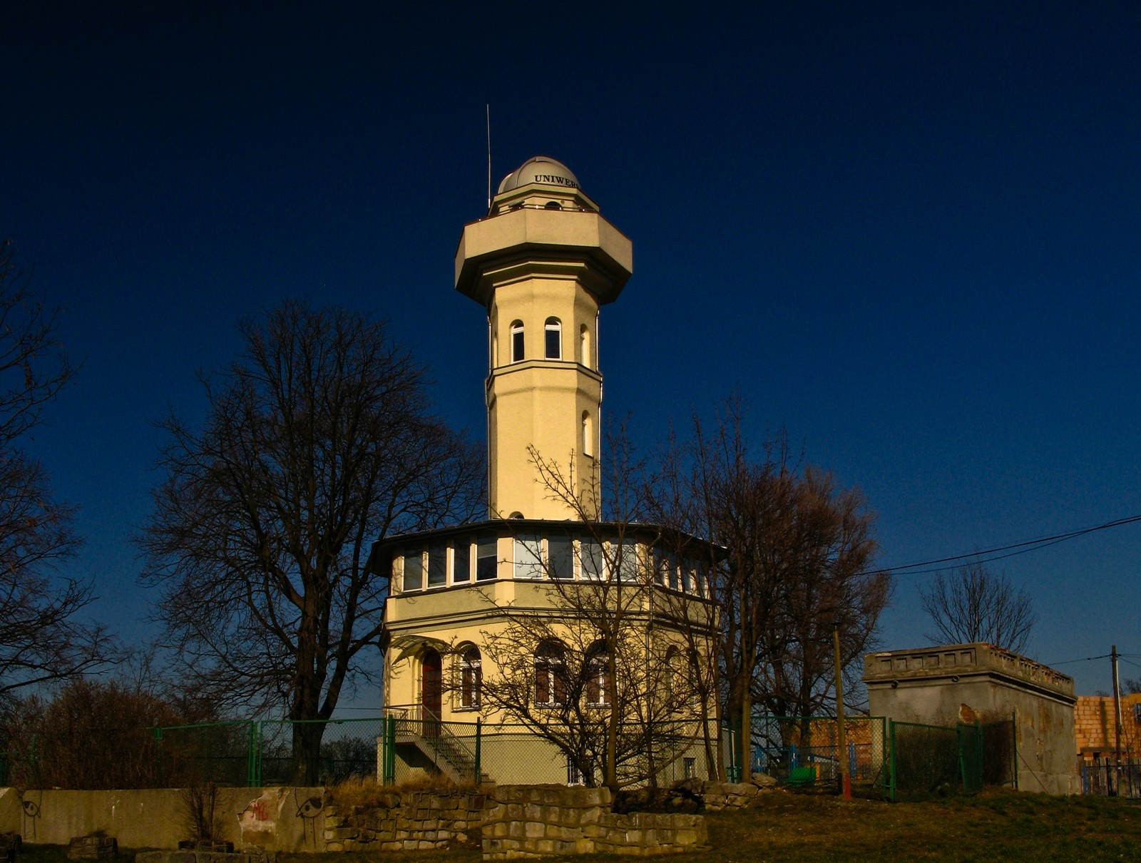 Observatory - Braniborska tower, view from behind